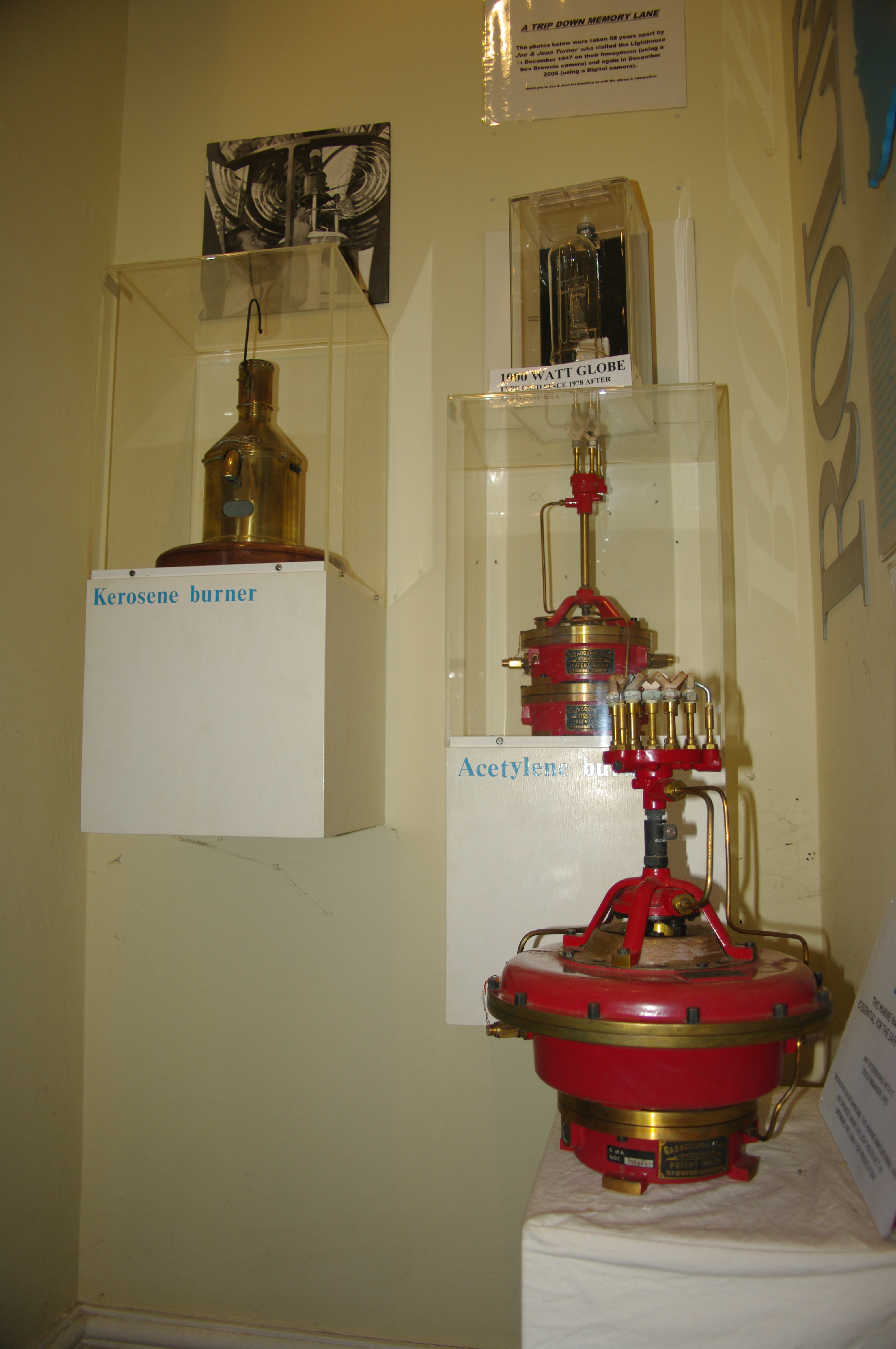 old light units in a keepers cottage that been converted to a museum